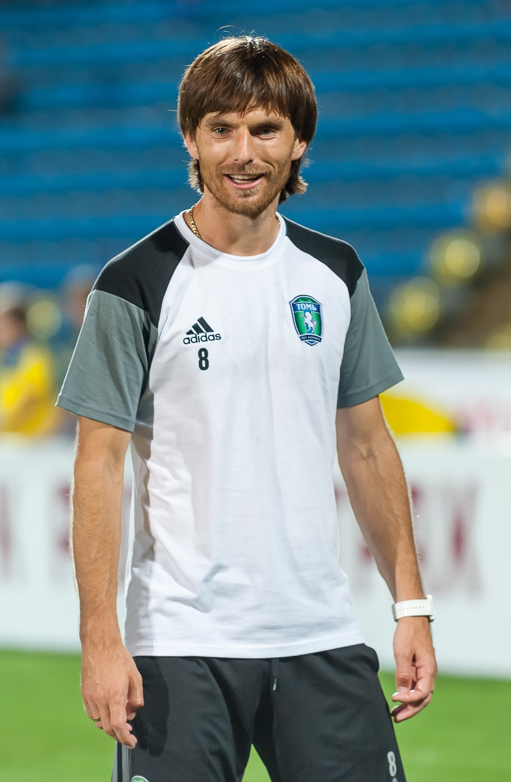 Kyrylo Kovalchuk with FC Tom Tomsk before the game against FC Rostov.